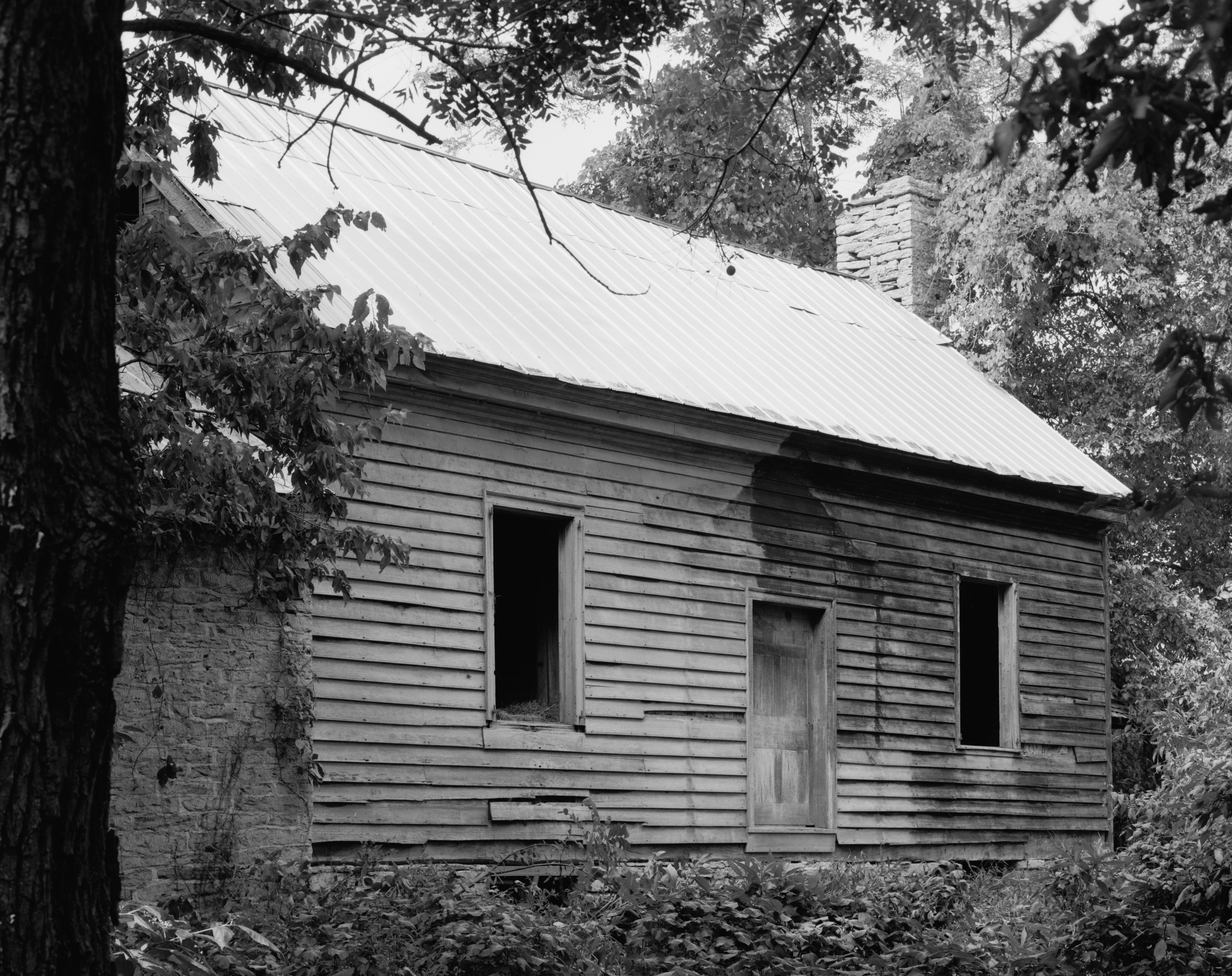 Front of the Thomas Threlkeld House, located along the Benson Pike near Shelbyville in Shelby County, Kentucky, United States. Built circa 1815, it is listed on the National Register of Historic Places.